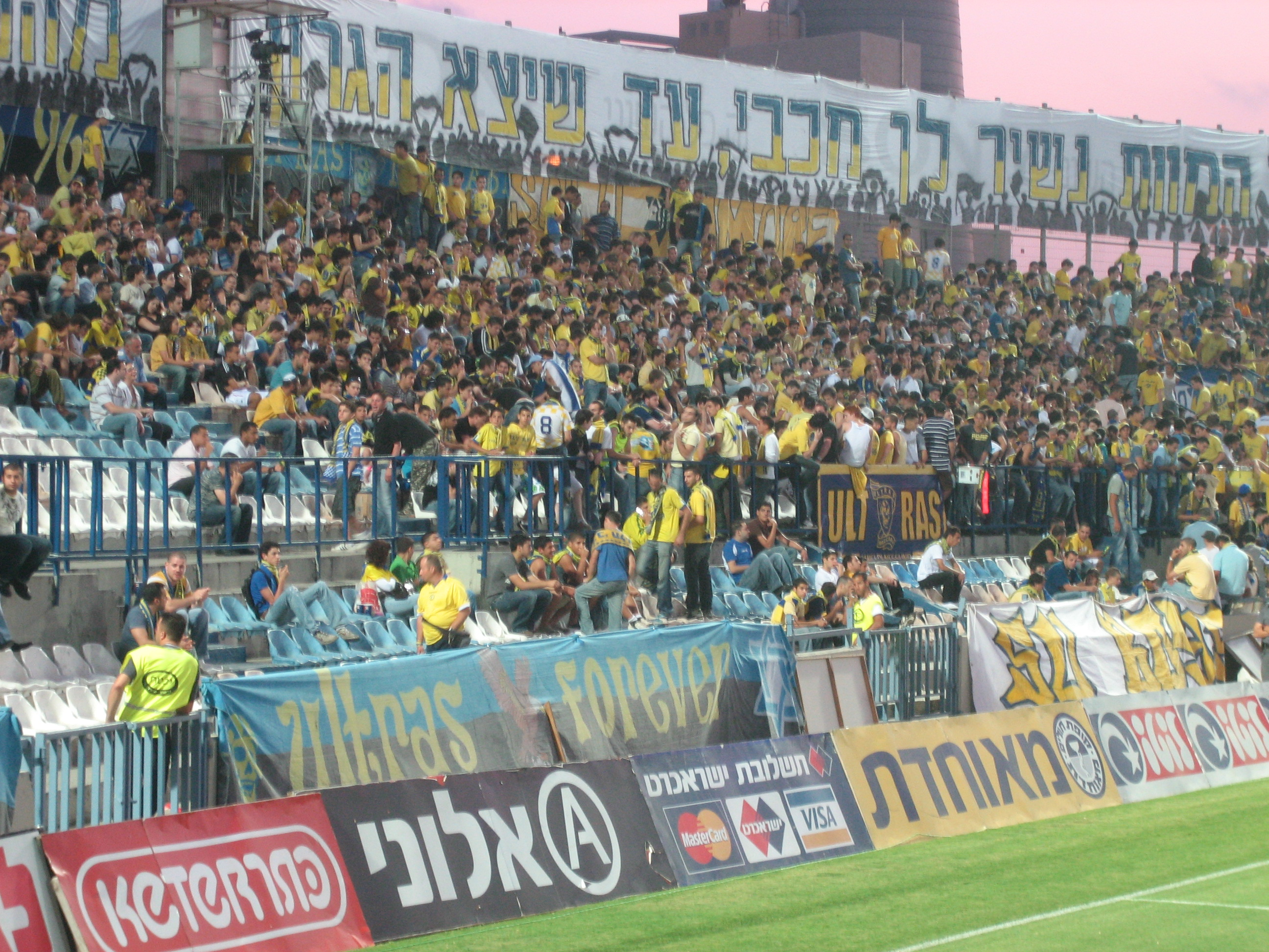 Maccabi Tel Aviv fans, 2 hours before a match